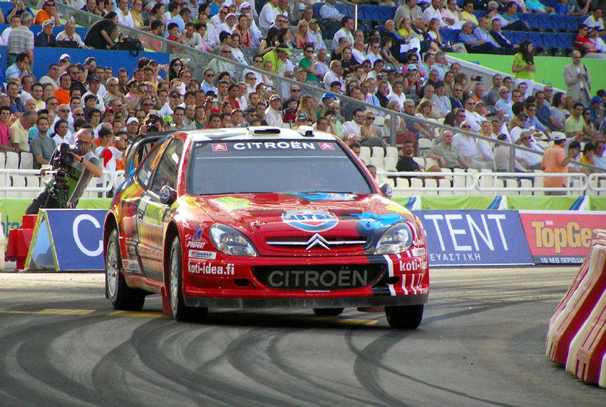 Toni Gardemeister driving his Citroën Xsara WRC at the 2006 Acropolis Rally.